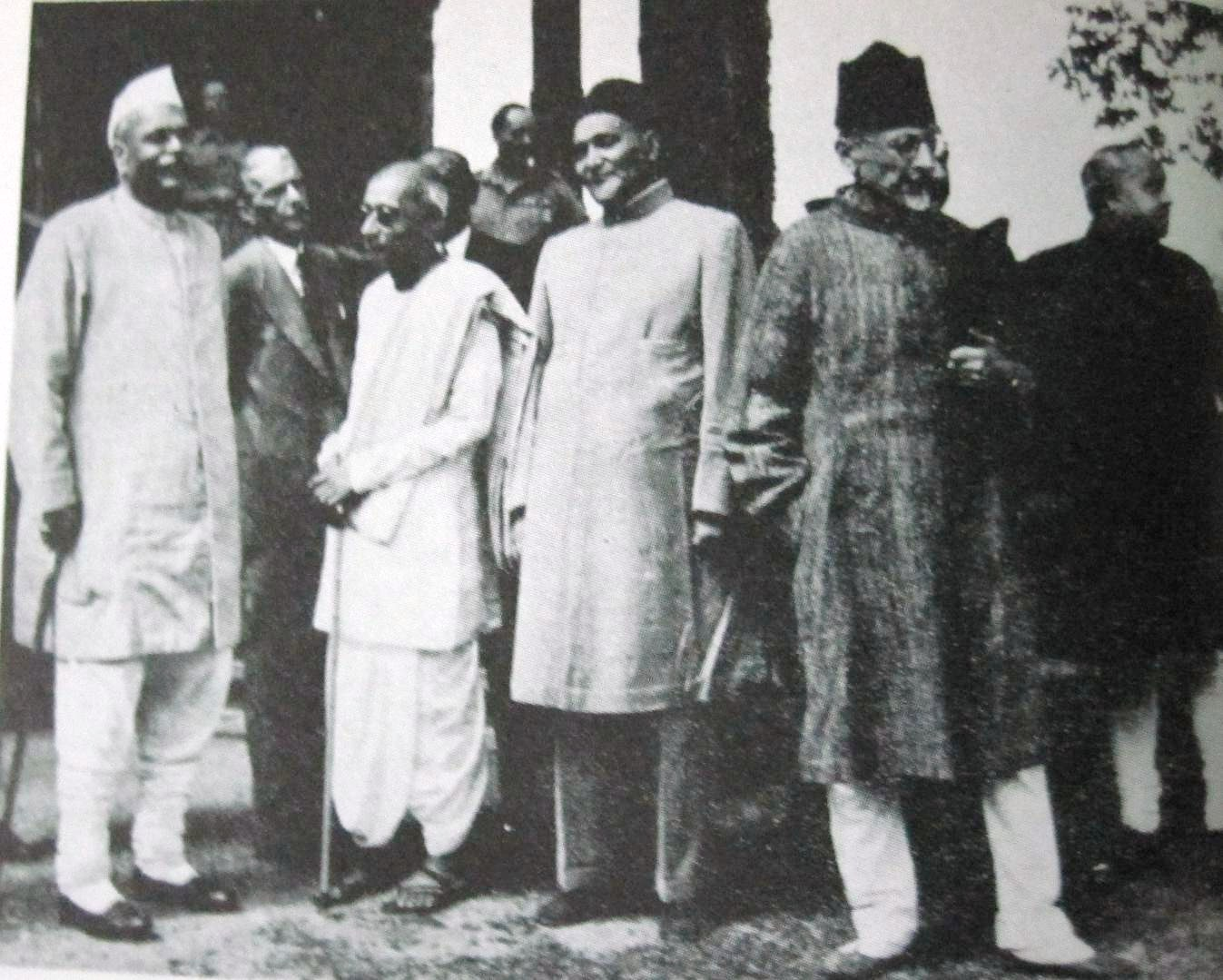 Indian leaders at the Simla Conference (1946). From Left to Right: Rajendra Prasad, Mohammad Ali Jinnah, C. Rajagopalachari, X, Maulana Abul Kalam Azad